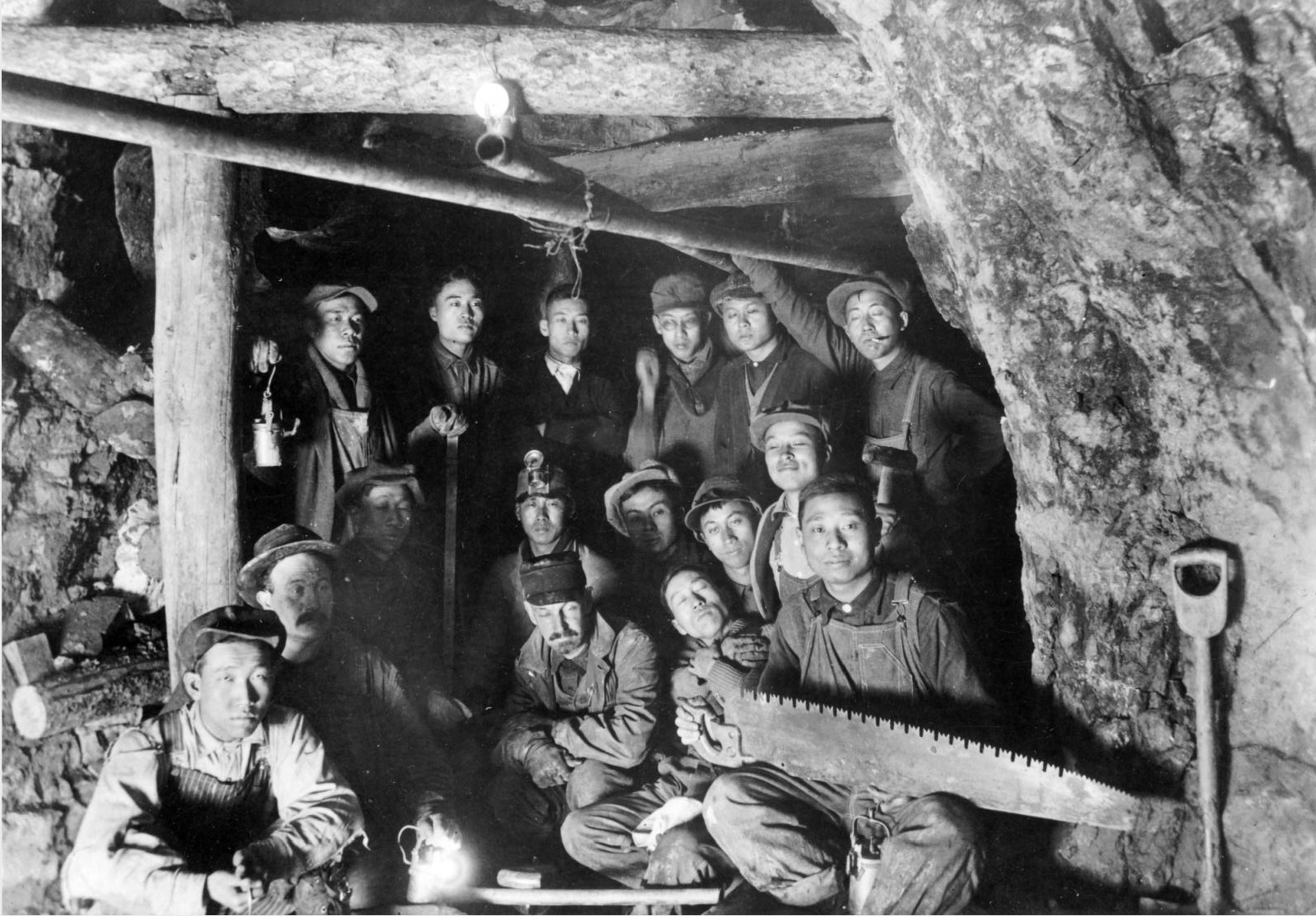 Dr. James Underhill poses with Chinese-American miners (probably) in the Colorado School of Mines' Edgar Experimental Mine near Idaho Springs (Clear Creek County), Colorado. One man holds a saw.